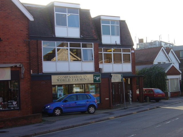 Former offices of Compassion in World Farming The picture is of Charles House, Charles Street, Petersfield. Compassion in World Farming moved to Godalming, Surrey shortly after the photograph was taken.